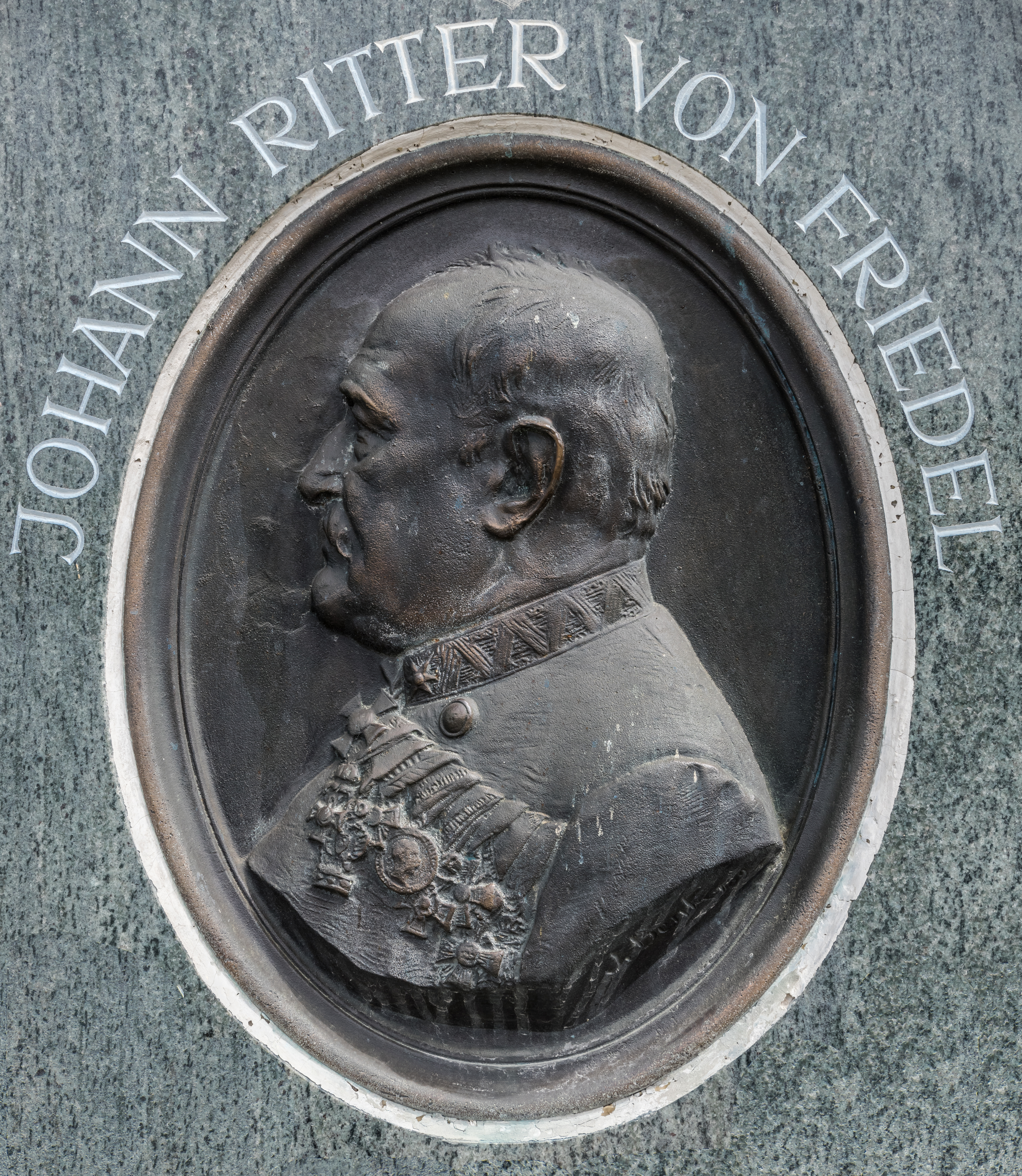 Monument of Johann Ritter von Friedel on Friedelstrand in Gurlitsch I, 12th district “Sankt Martin”, municipality Klagenfurt, Carinthia, Austria, EU